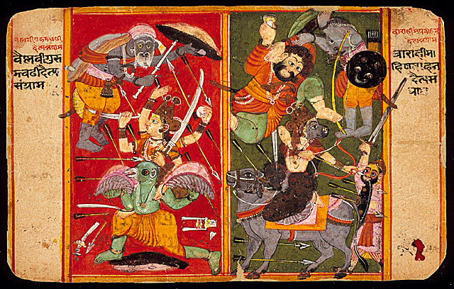 Vaishnavi and Varahi Fighting Asuras (Recto),Painting; Watercolor, Opaque watercolor and ink on paper, Image: 5 1/8 x 6 3/8 in. (13.01 x 16.19 cm); Sheet: 5 1/8 x 8 1/8 in. (13.01 x 20.63 cm)